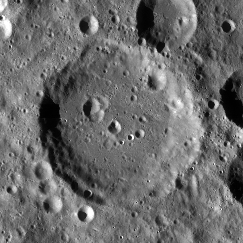 Shayn crater, on the far side of the moon. LRO Wide Angle Camera mosaic.